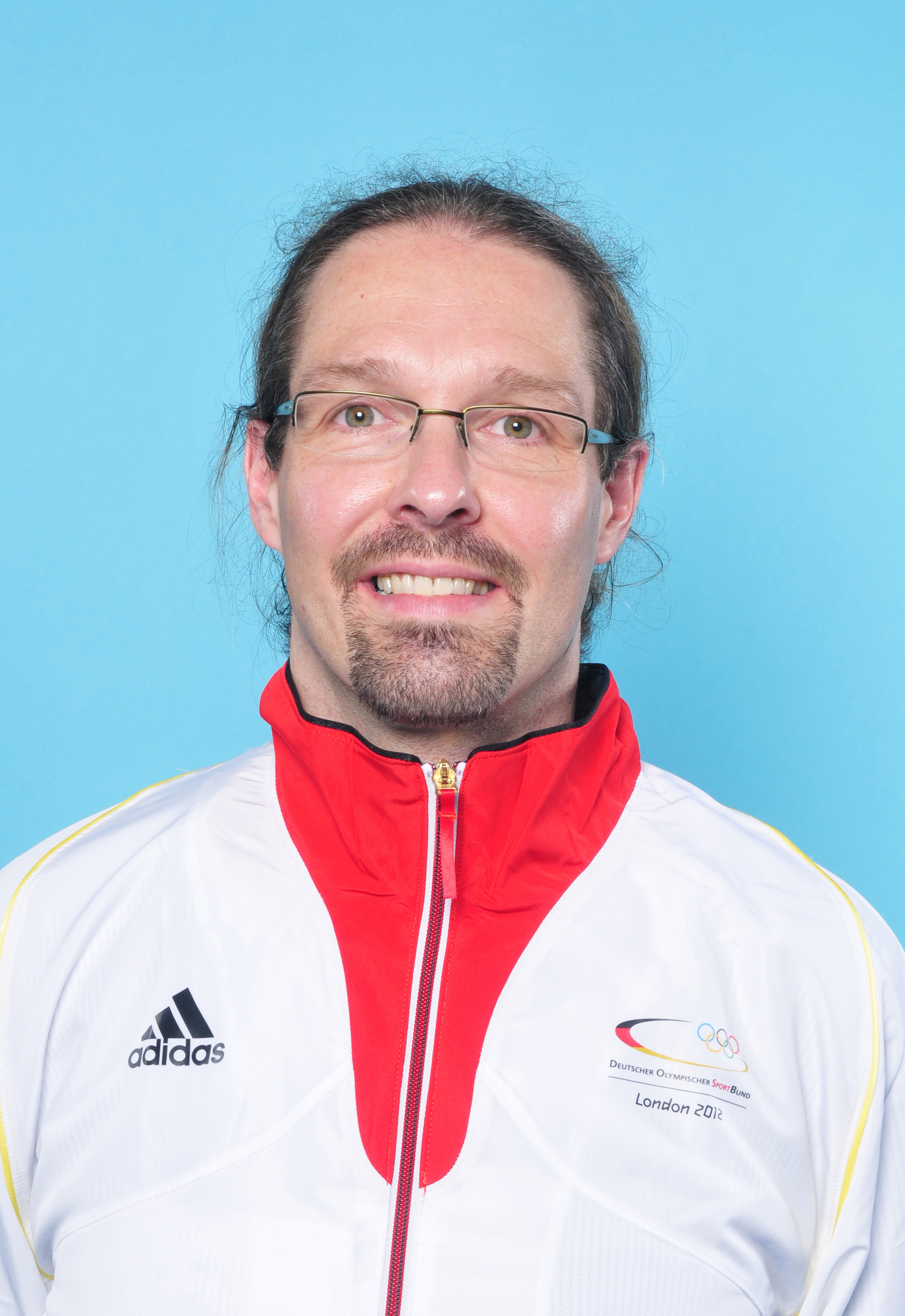 Maik Eckhardt, a German sport shooter in the 2012 Summer Olympics London